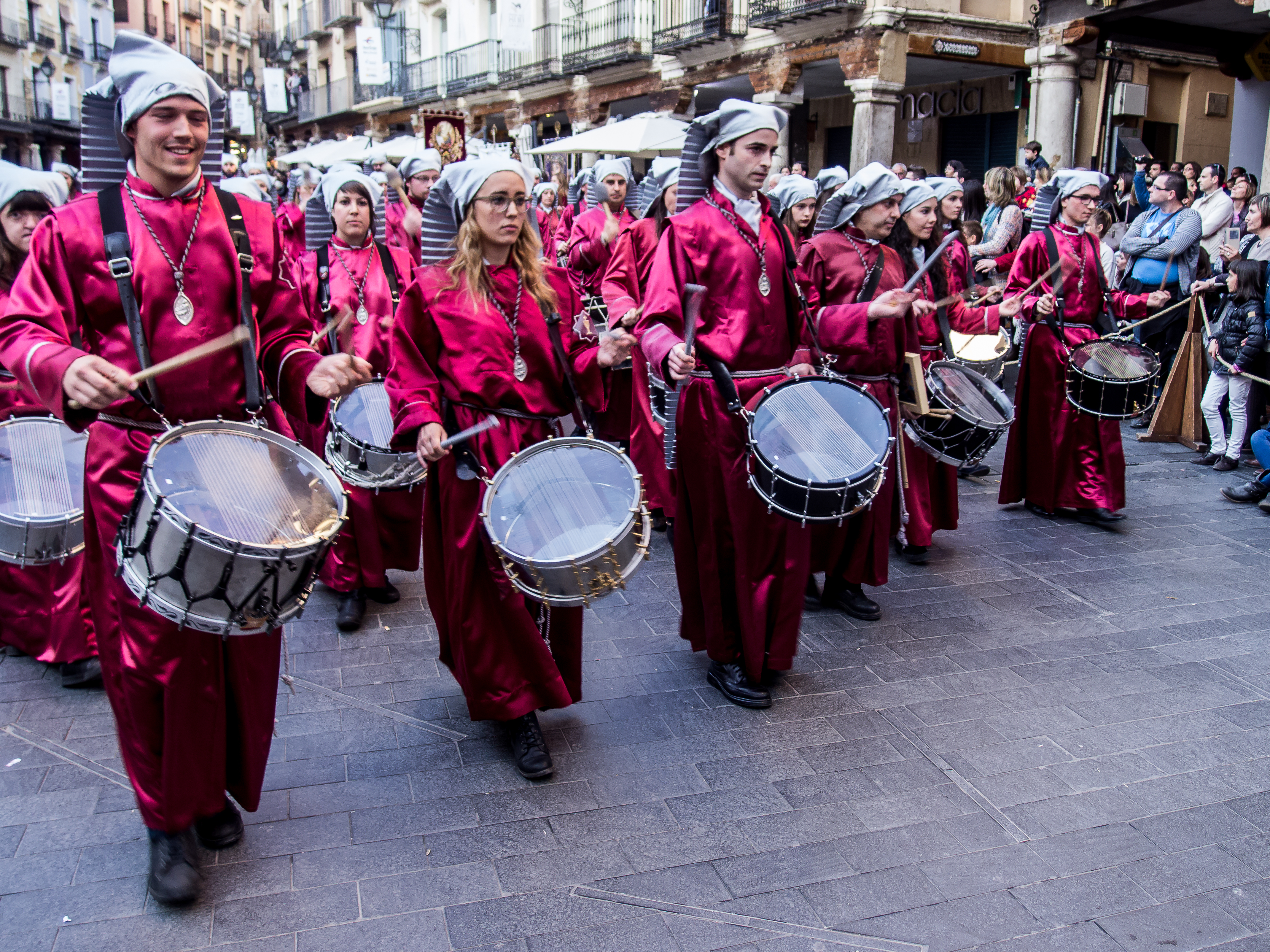 Exaltación de los instrumentos de Semana Santa. Teruel. Esta tarde, para comenzar de verdad la Semana Santa, en la plaza del Torico de Teruel hemos tenido una tremenda "batucada sacra". Demostrando poderio, divididos en tres cuadrilla y ocupando toda la plaza, la Cofradía de la Oración en el Huerto ha actuado en noveno lugar. This is a photography of a Folklore festival in Spain (Wikidata id Q23541308).